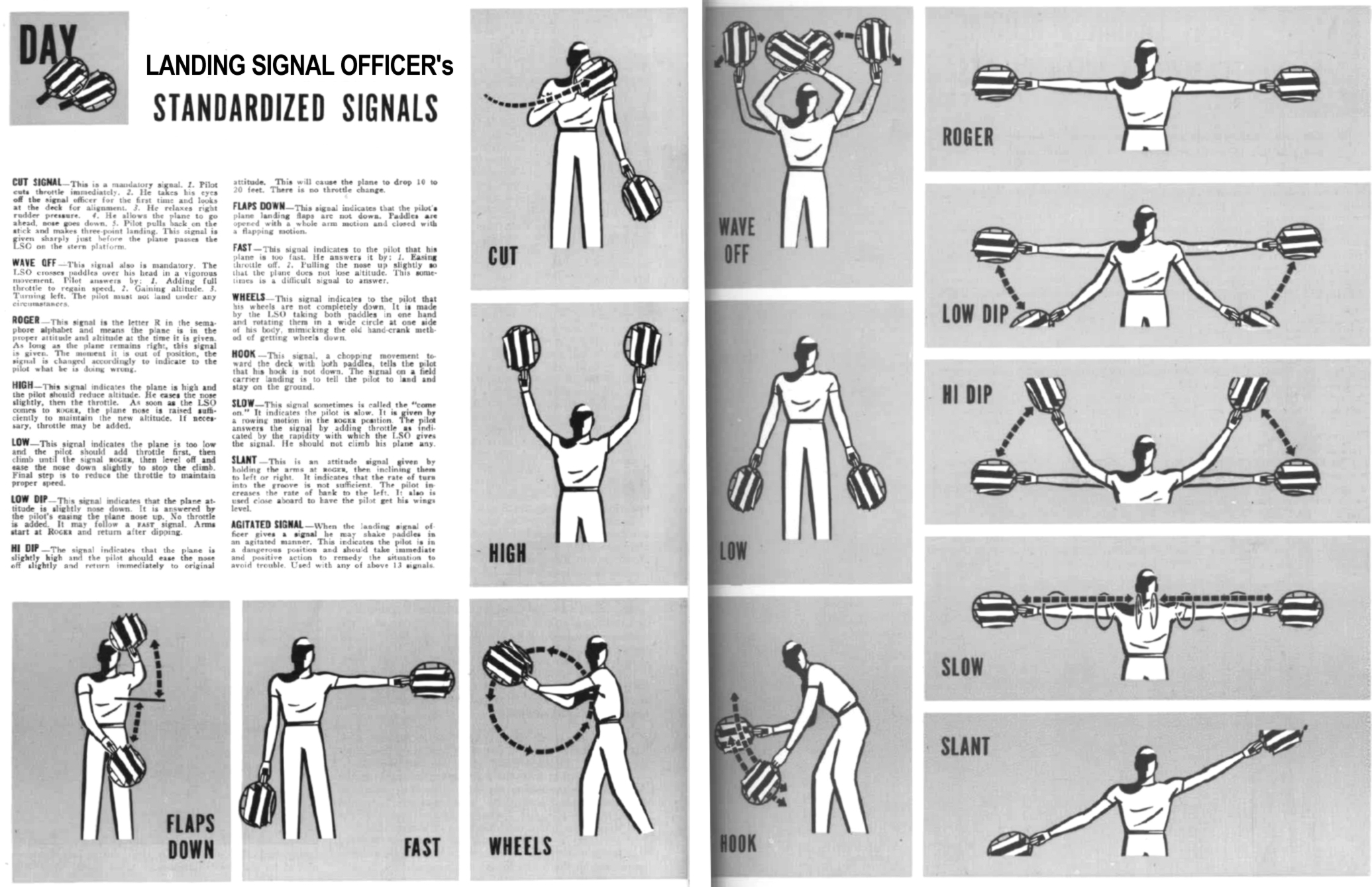 Chart showing the thirteen daytime standardized signals of U.S. Navy Landing Signal Officers used to guide approaching aircraft to the aircraft carrier.